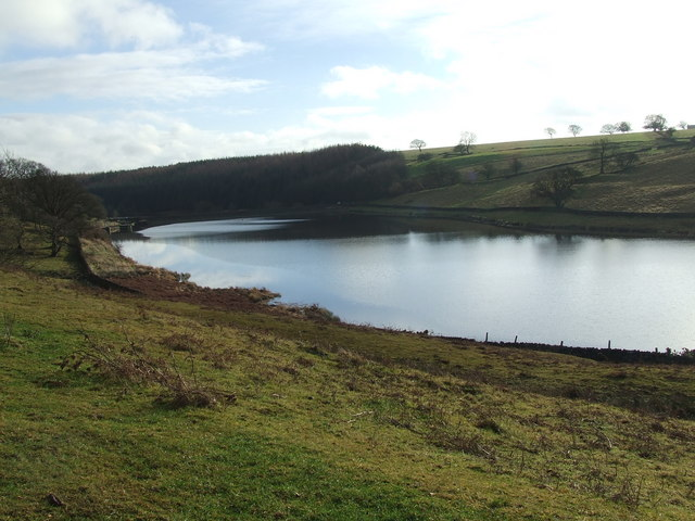 John O'Gaunt's Reservoir John O'Gaunt's Reservoir was built in 1800 and claims to be the oldest Yorkshire reservoir still in use.